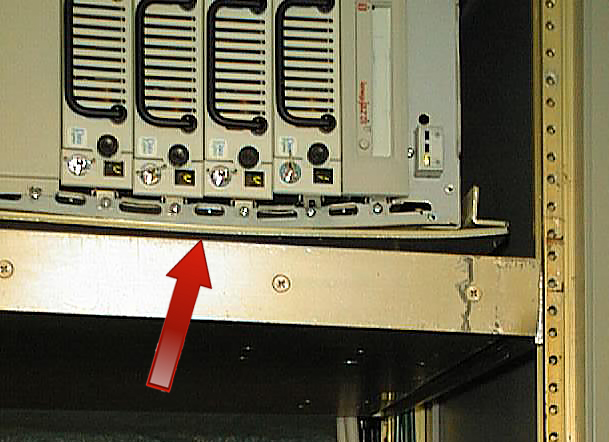 Photo showing failure of a drive array from a MIL-S-901D Barge Test. Note the weight of the drives distorted the structure. This was shot 1. Subsequent shots would dislodge the drives.